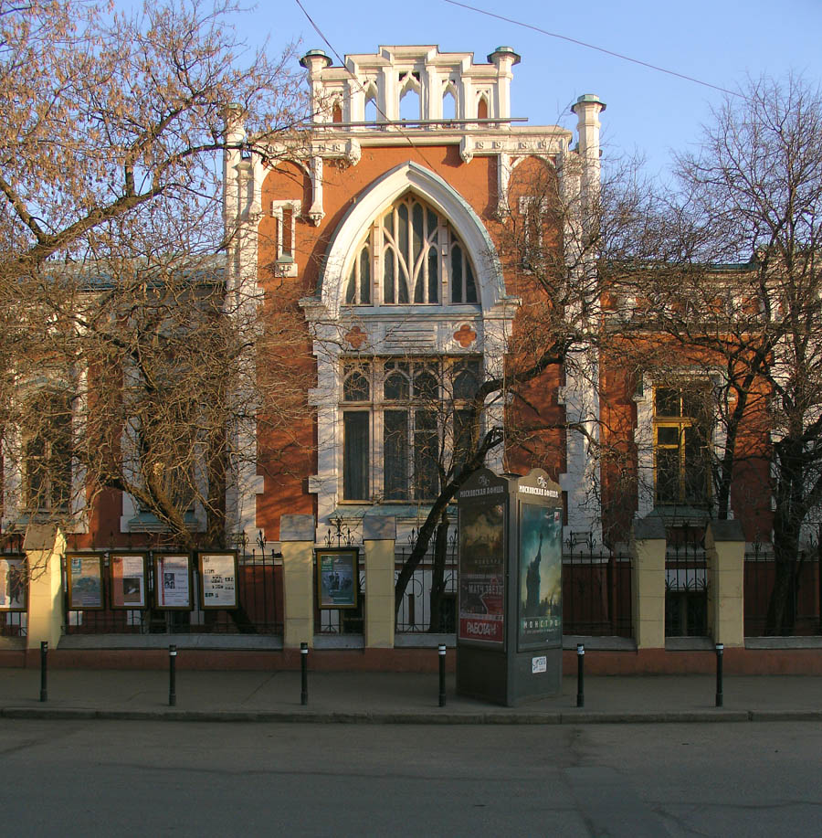 Bakhrushin Museum of Theater in Moscow